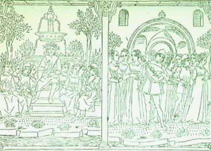 Illustration from a copy of The Decameron, ca. 1492